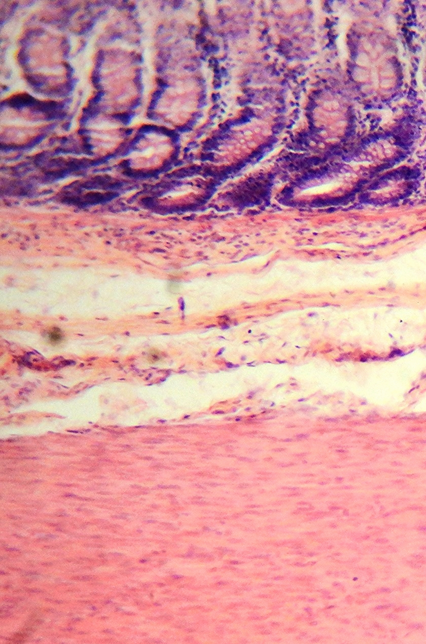 Large intestine histology